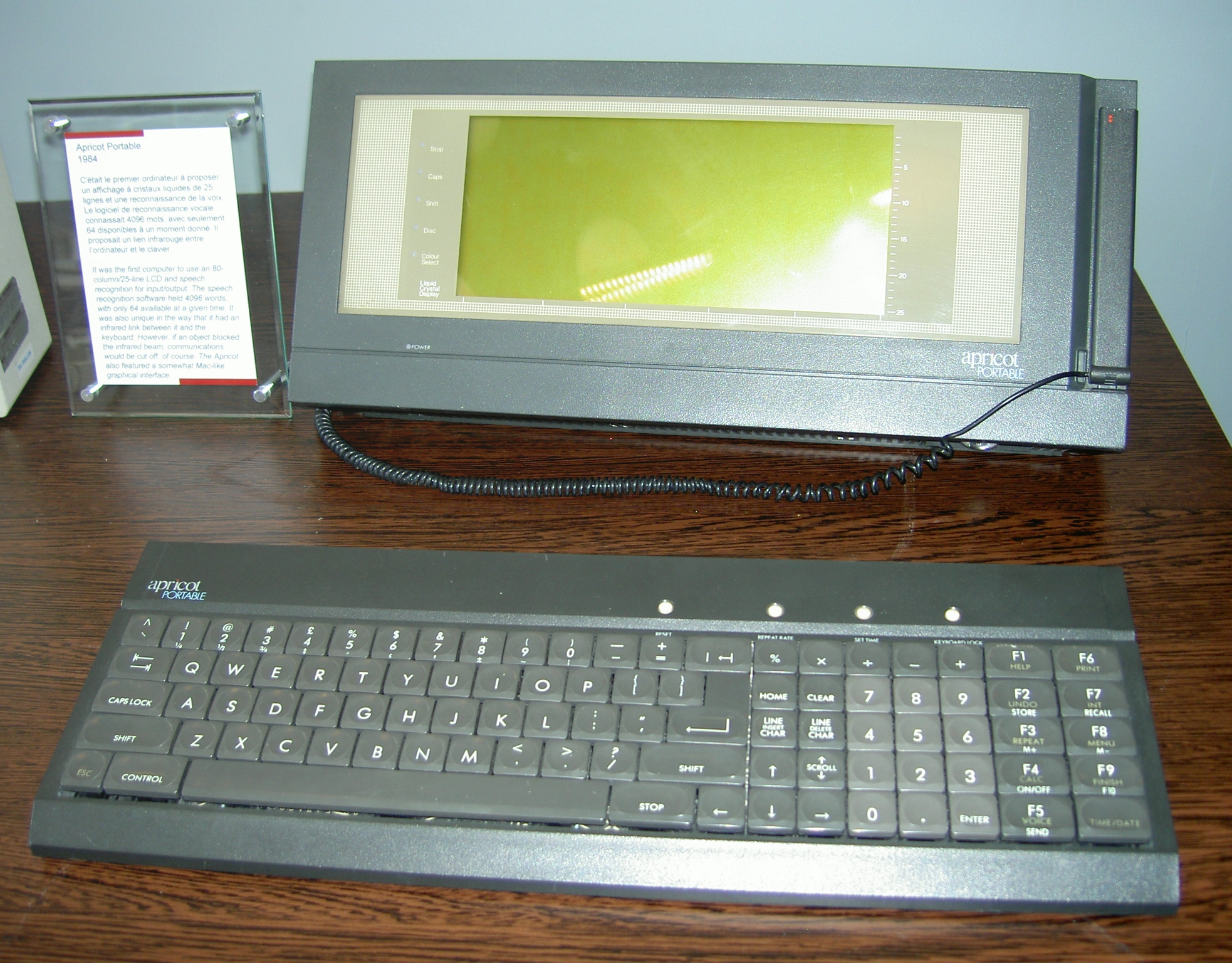 Apricot Portable computer (England, 1984, 13kg). First computer with LCD screen (25 lines), voice processing, infra-red keyboard